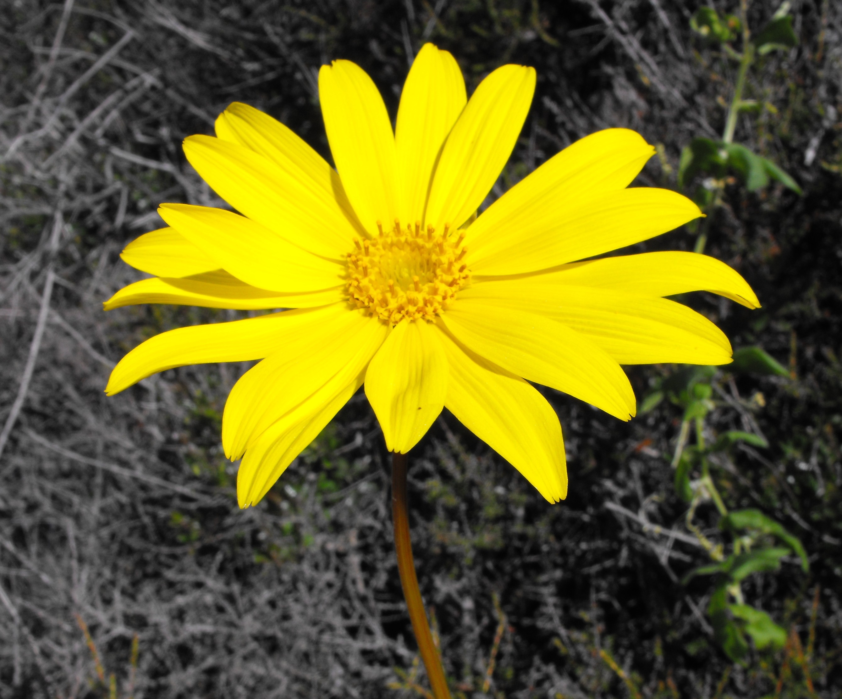 Coreopsis maritima at Torrey Pines State Reserve, San Diego, California, USA.